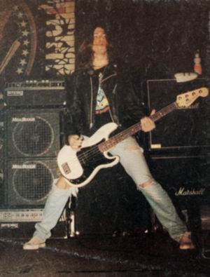 C.Jay Ramone num show em 91